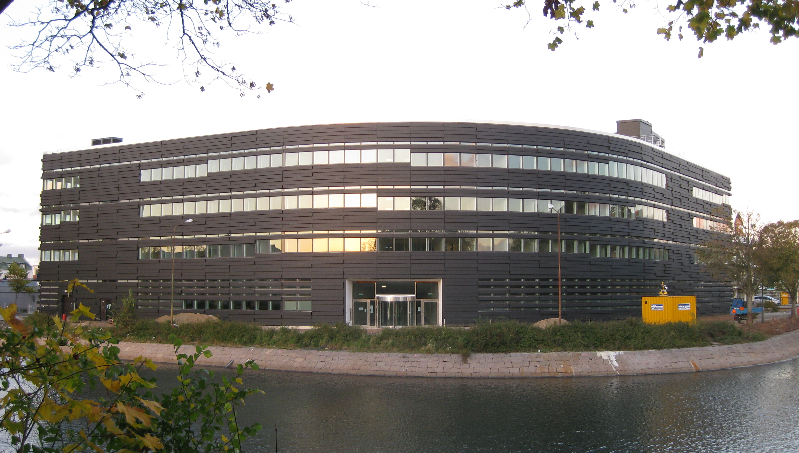 New appelate court house in Malmö, Sweden. Will be opened in january 2009. Designed by Danish schmidt hammer lassen architects